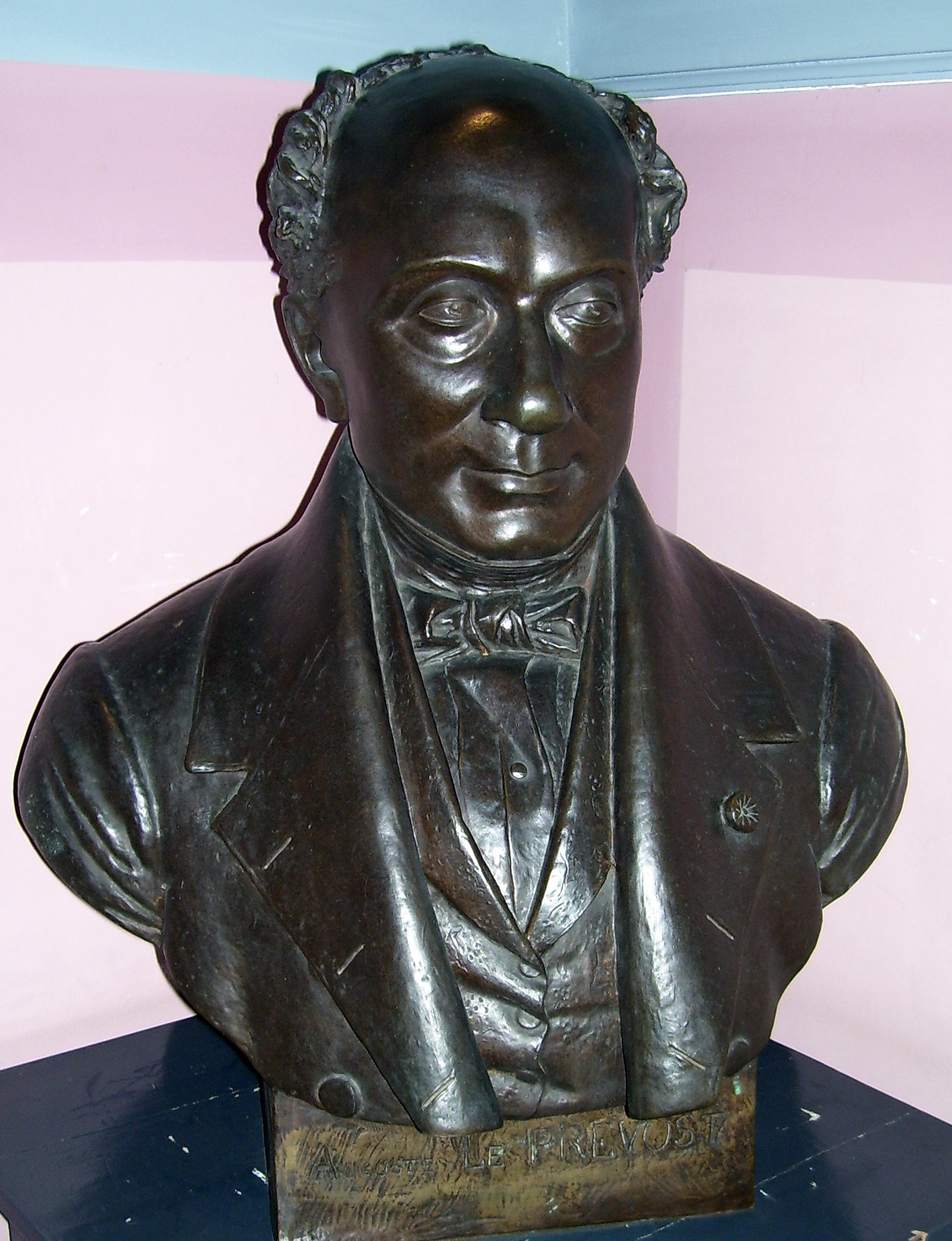 Bust of the historian Auguste Le Prévost (1787-1859) by Jean-Marie Bonnassieux (1810-1892) in the museum of Bernay, France.